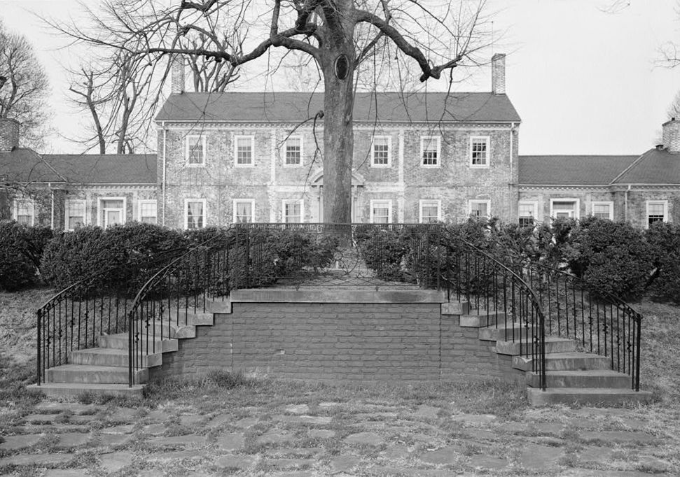 Photographic view of the west front side of Chatham Manor house, facing the Rappahannock River, near Falmouth, Stafford County, Virginia